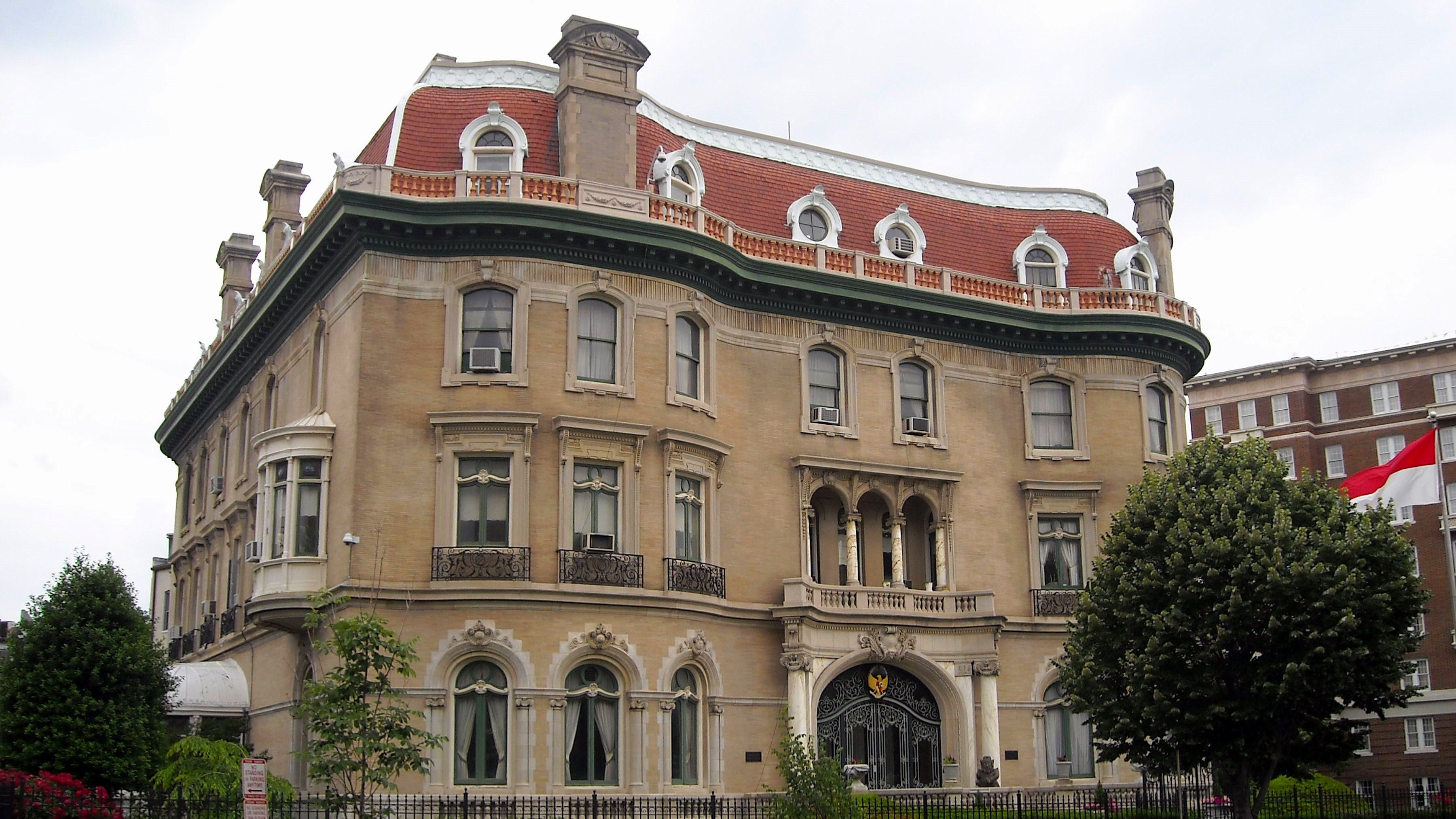 The Embassy of Indonesia located at 2020 Massachusetts Avenue, NW in the Dupont Circle neighborhood of Washington, D.C. The building is also known as the Walsh-McLean House and is listed on the National Register of Historic Places. It is a contributing property to the Massachusetts Avenue Historic District, as well as the Dupont Circle Historic District. The 50-room mansion, designed by architect Henry Anderson, was built from 1901 to 1903 by Irish-born Thomas F. Walsh for his daugther Evalyn. It cost $853,000 to construct (about $20,000,000 in 2008). Evalyn eventually married Edward McClean, whose family owned the Washington Post. Edward negotiated in a dressing room of the house to buy his wife the Hope Diamond. She was the last private owner of the famous jewel. A more detailed history, including the building once being used by the American Red Cross, can be found here